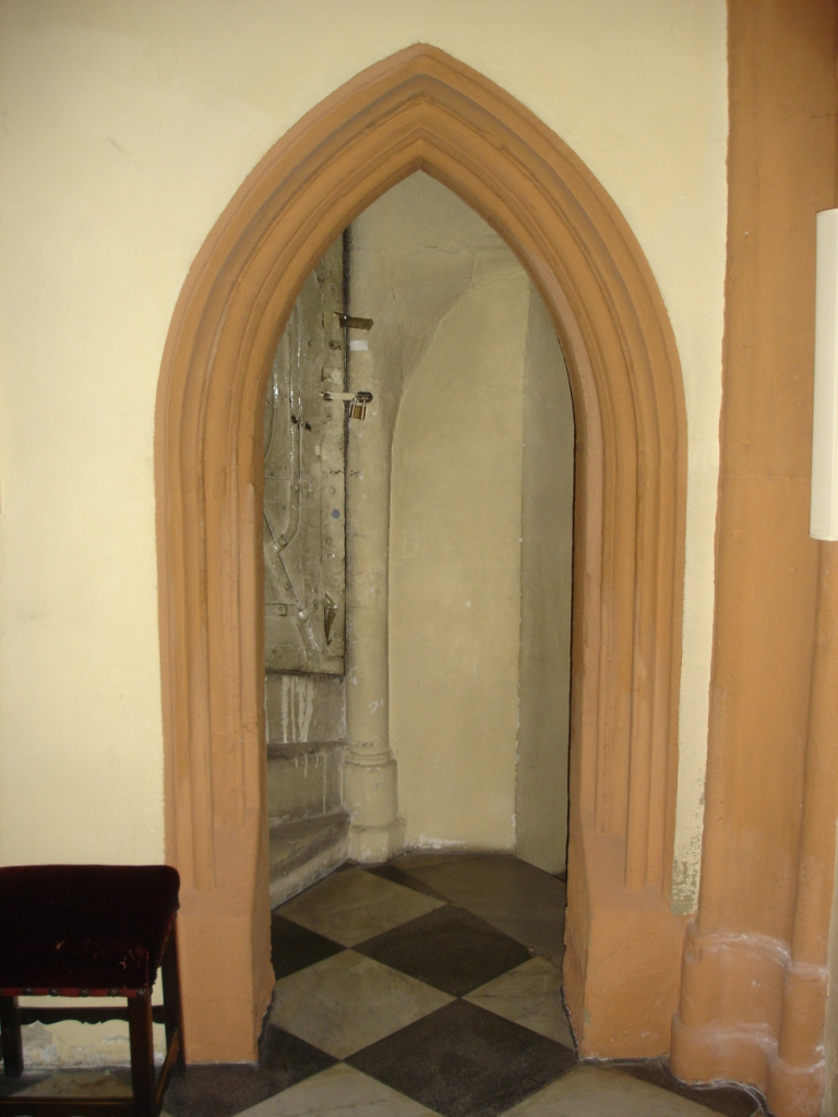 Gothic doorjamb, Cathedral of Maribor, Slovenia